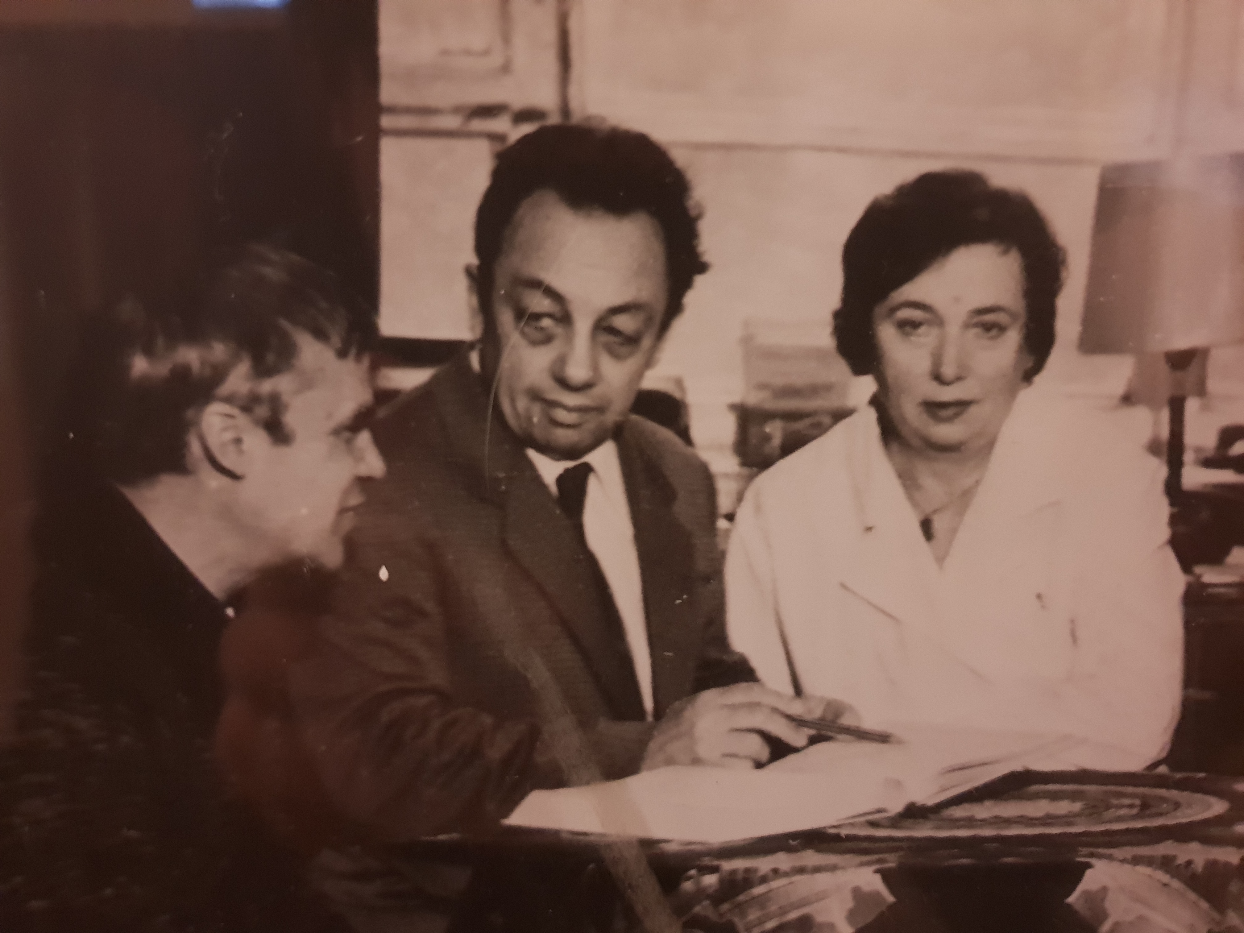 Lab seminar with Galchenko